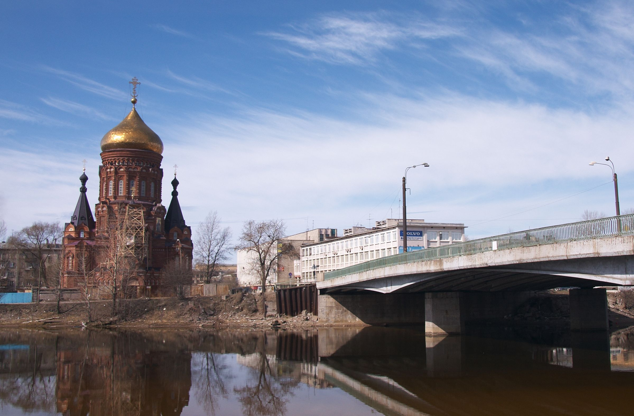 Gutuevskiy Bridge in Saint Petersburg with the Epiphany Churh